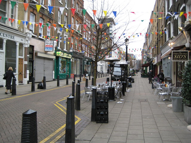 Bloomsbury: Lamb's Conduit Street, WC1 Lamb's Conduit Street derives its name from one William Lamb, an ancient cloth worker, who erected a water conduit along its length in 1577. The conduit was taken down in 1746. In the reign of Queen Anne Lamb's Conduit Fields formed a favourite promenade for the citizens of London. Today it is largely pedestrianized with many street cafes.